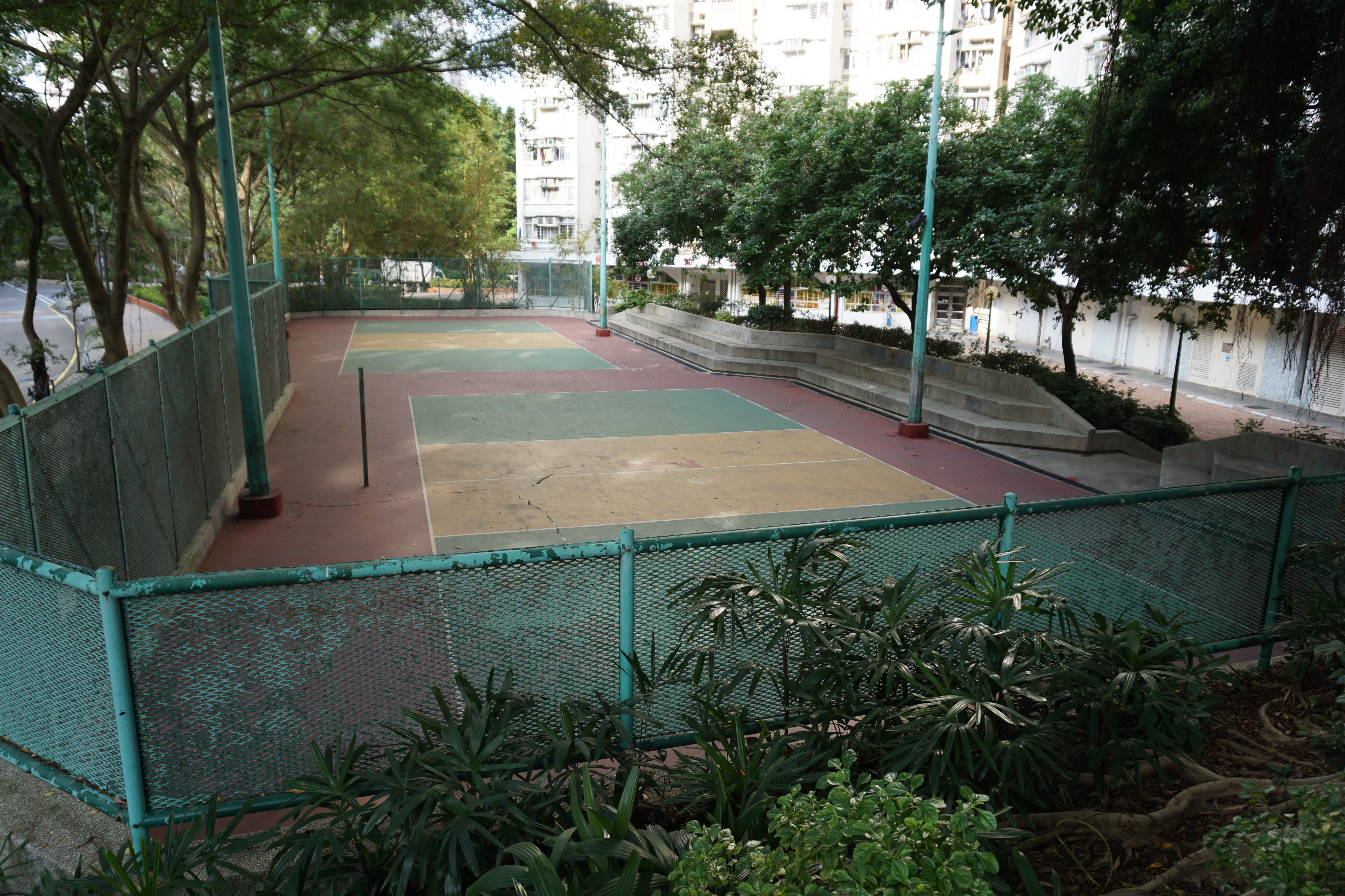 Wah Ming Estate in Fanling, Hong Kong.